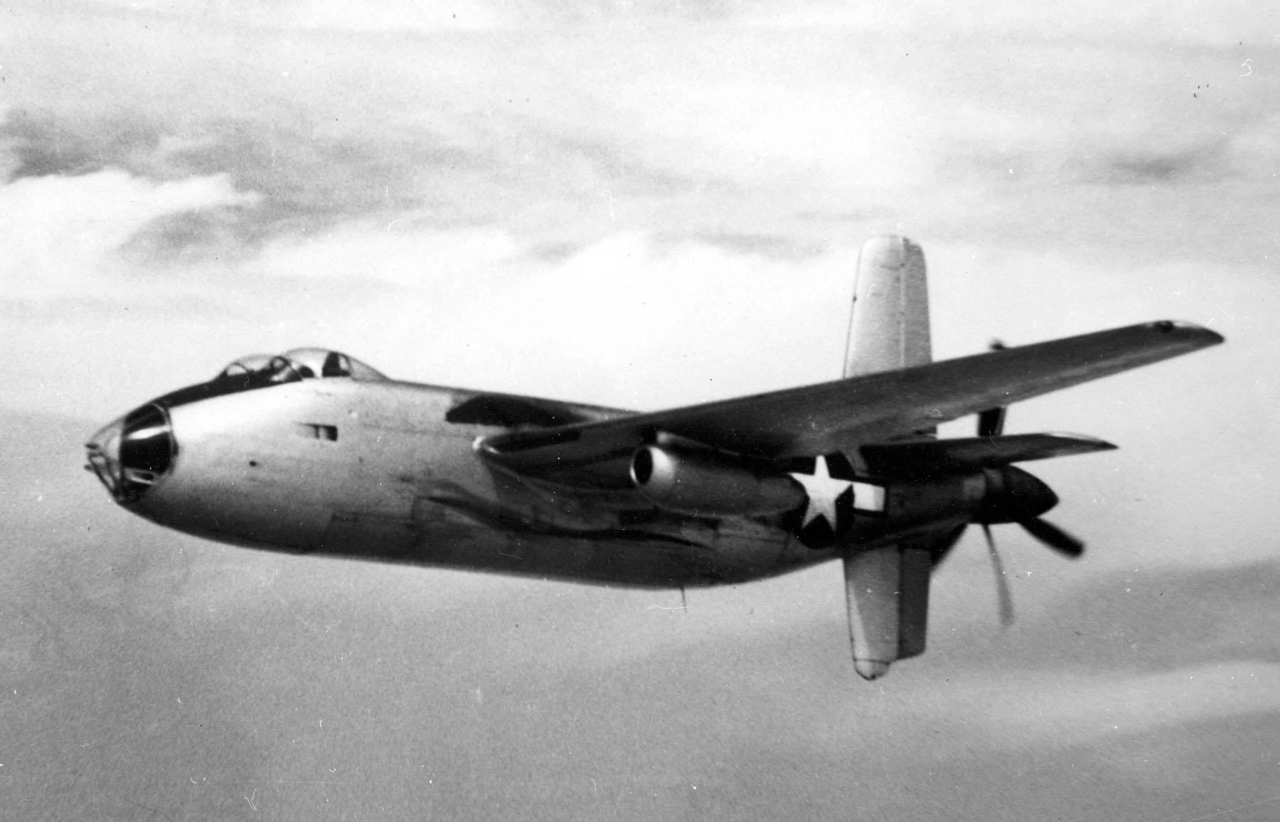 Douglas XB-42A